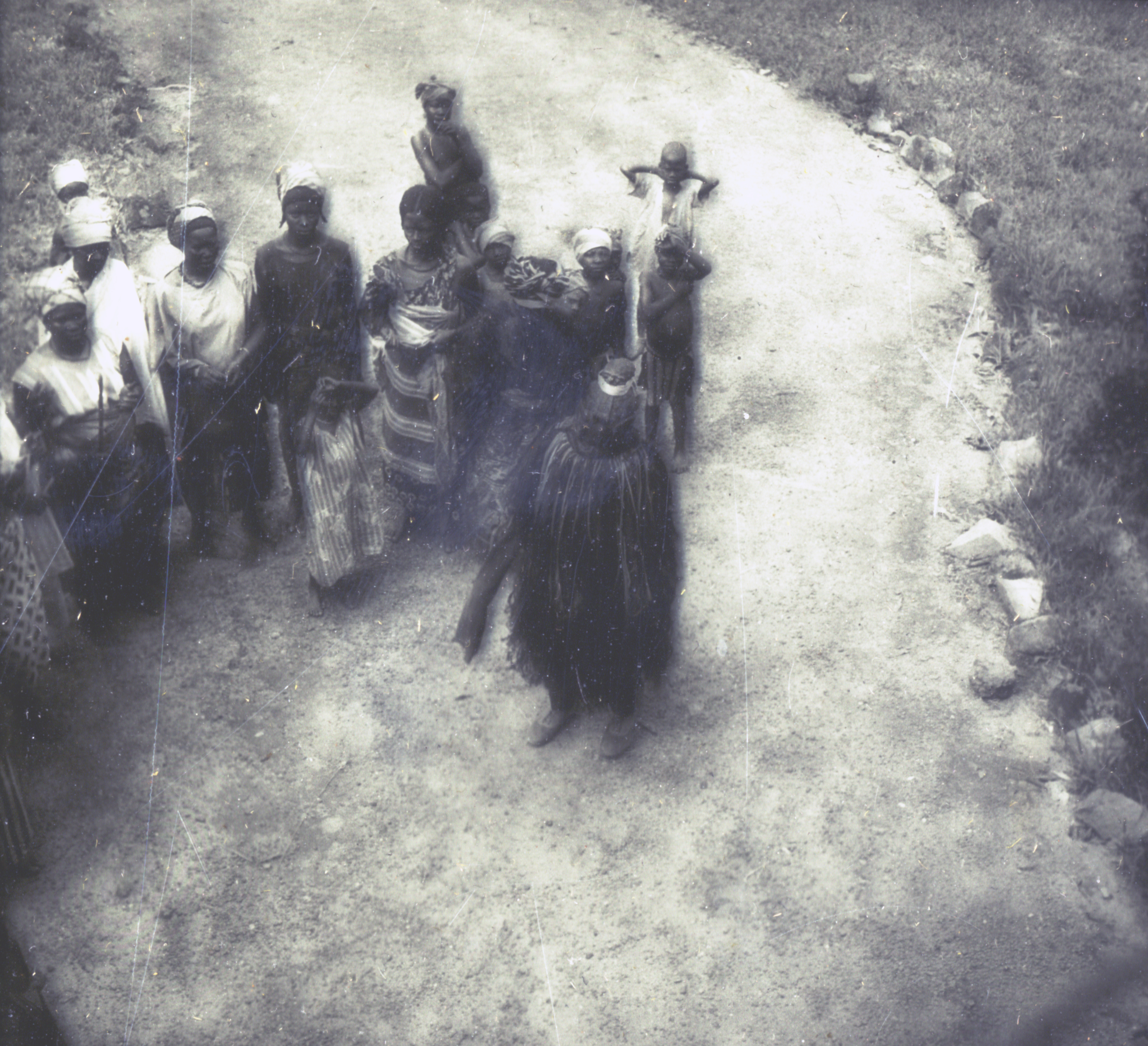 Sixteen women - One in special dress (Bird's-eye view). Sierra Leone, 1935. Panguma (surroundings). Collection Hofstra, glass plate positives. Photograph: Sjoerd Hofstra